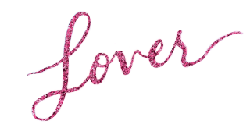 Logo of Taylor Swift's seventh album "Lover".